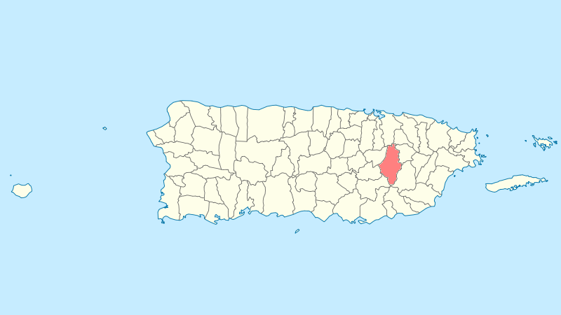 Municipal locator of Puerto Rico